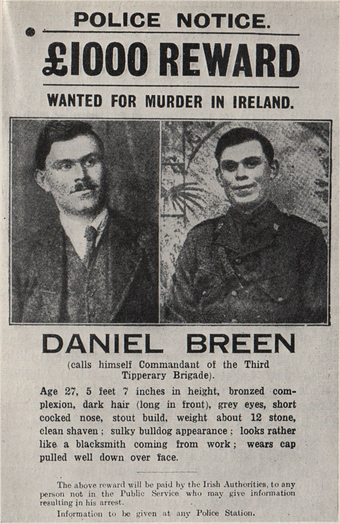 Dan Breen police notice